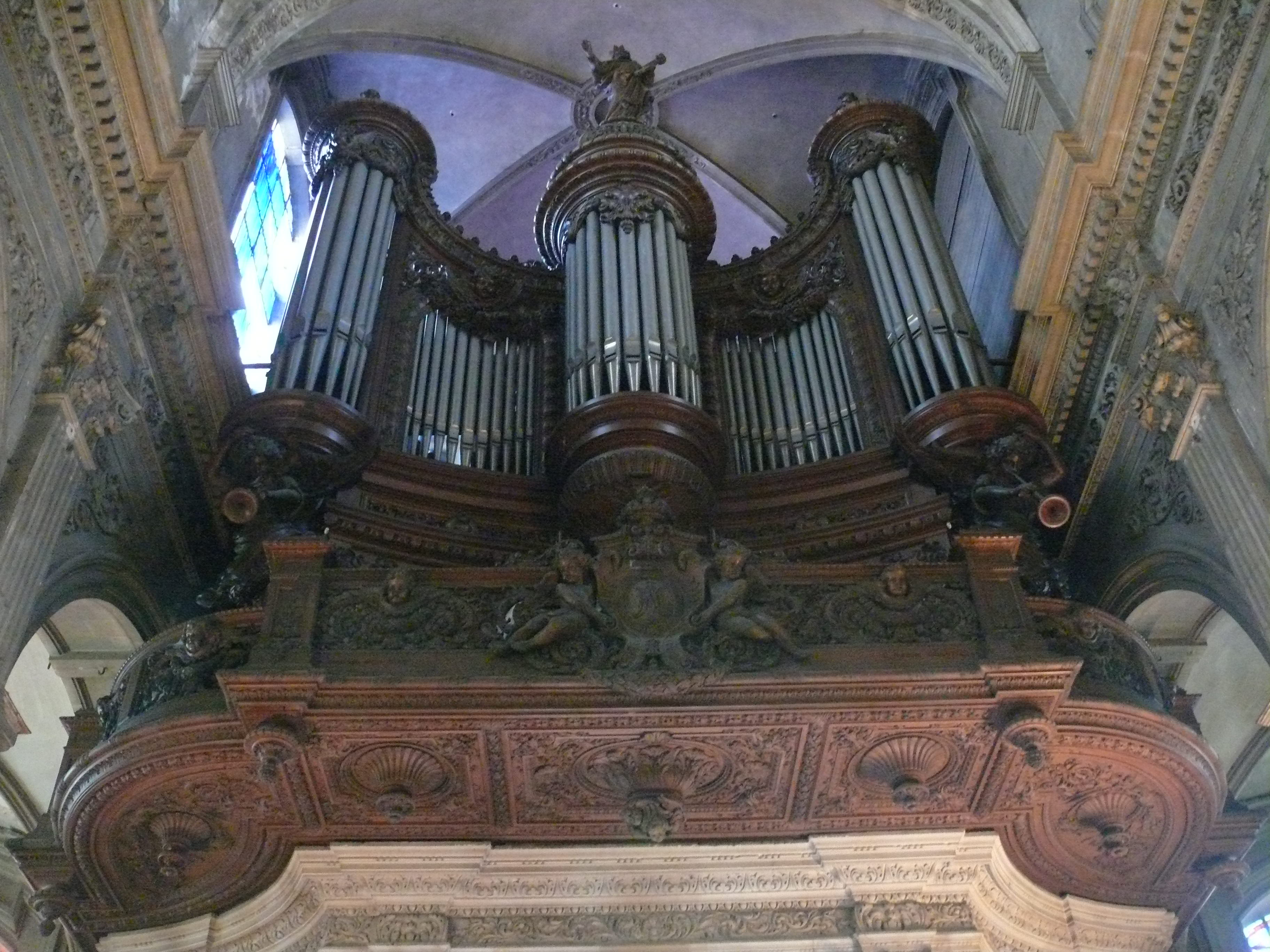 Our-Lady-of-Grace's cathedral of Cambrai (Nord, France).